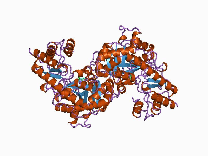 Cartoon representation of the molecular structure of protein registered with 1b8g code.